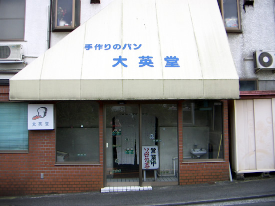 Daieido Bakery Ichigao 2006